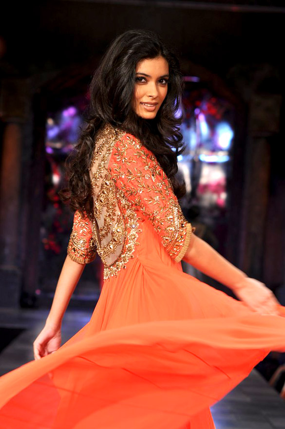 Diana Penty graces the 'Mijwan-Sonnets in Fabric' fashion show